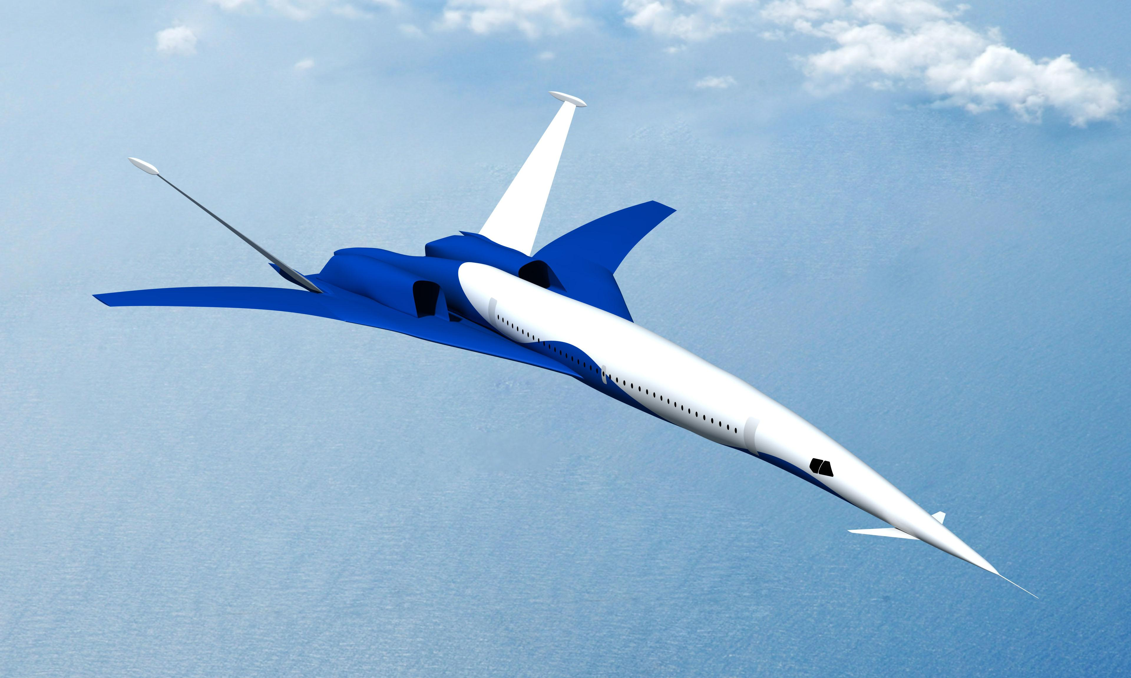 The "Icon-II" future aircraft design concept for supersonic flight over land comes from the team led by The Boeing Company. A design that achieves fuel burn reduction and airport noise goals, it also achieves large reductions in sonic boom noise levels that will meet the target level required to make supersonic flight over land possible. This concept is one of two designs presented in April 2010 to the NASA Aeronautics Research Mission Directorate for its NASA Research Announcement-funded studies into advanced supersonic cruise aircraft that could enter service in the 2030-2035 timeframe.